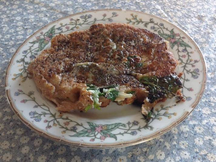 Turkish ıspanaklı gözleme